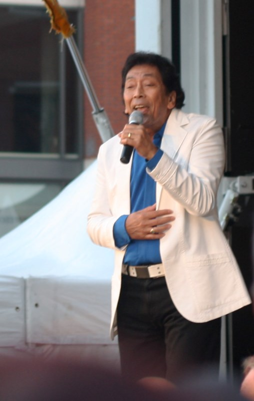 Riem de Wolff co-founder of the legendary Indopop/rock group 'The Blue Diamonds' famous for their hit song 'Ramona'. Performing live at the Pasar Malam Dordrecht, 2013.